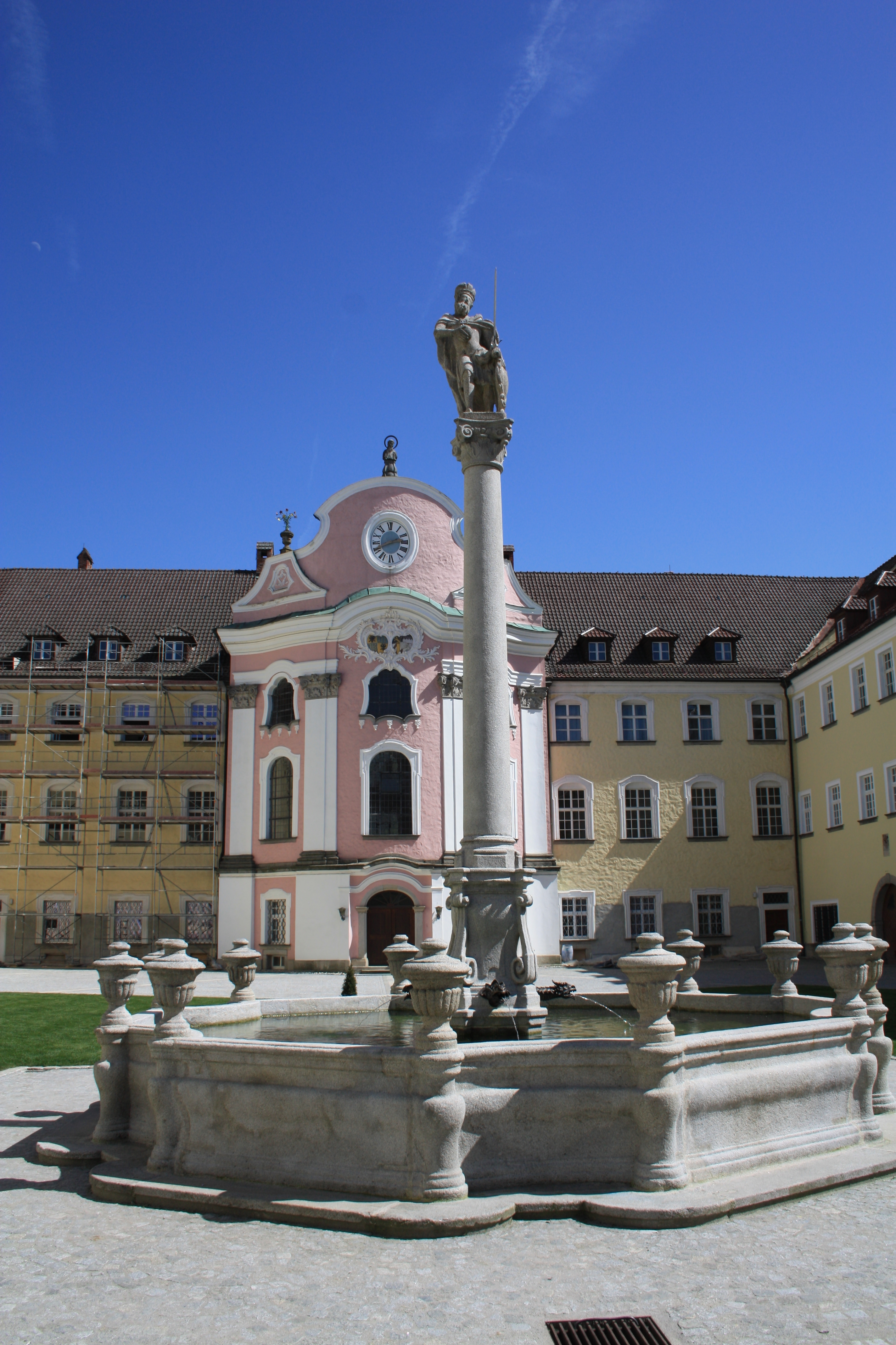 This is a photograph of an architectural monument.